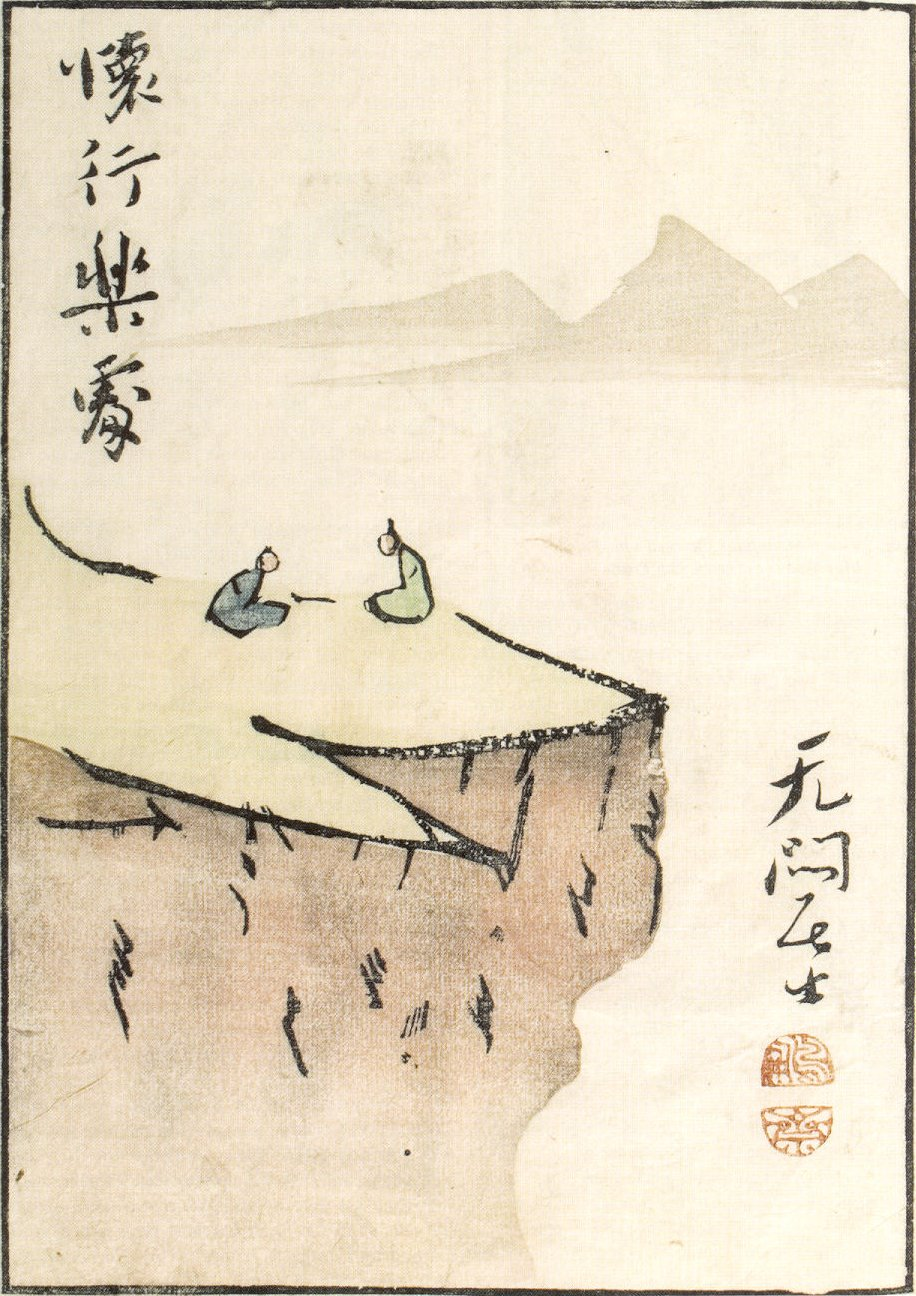 'Yearning for a Pleasurable Place' in 'Mountains of the Heart' by Kameda Bôsai, 1816. The signature reads "Kitsumon Koji" (an art name), but the seal reads "Bôsai"